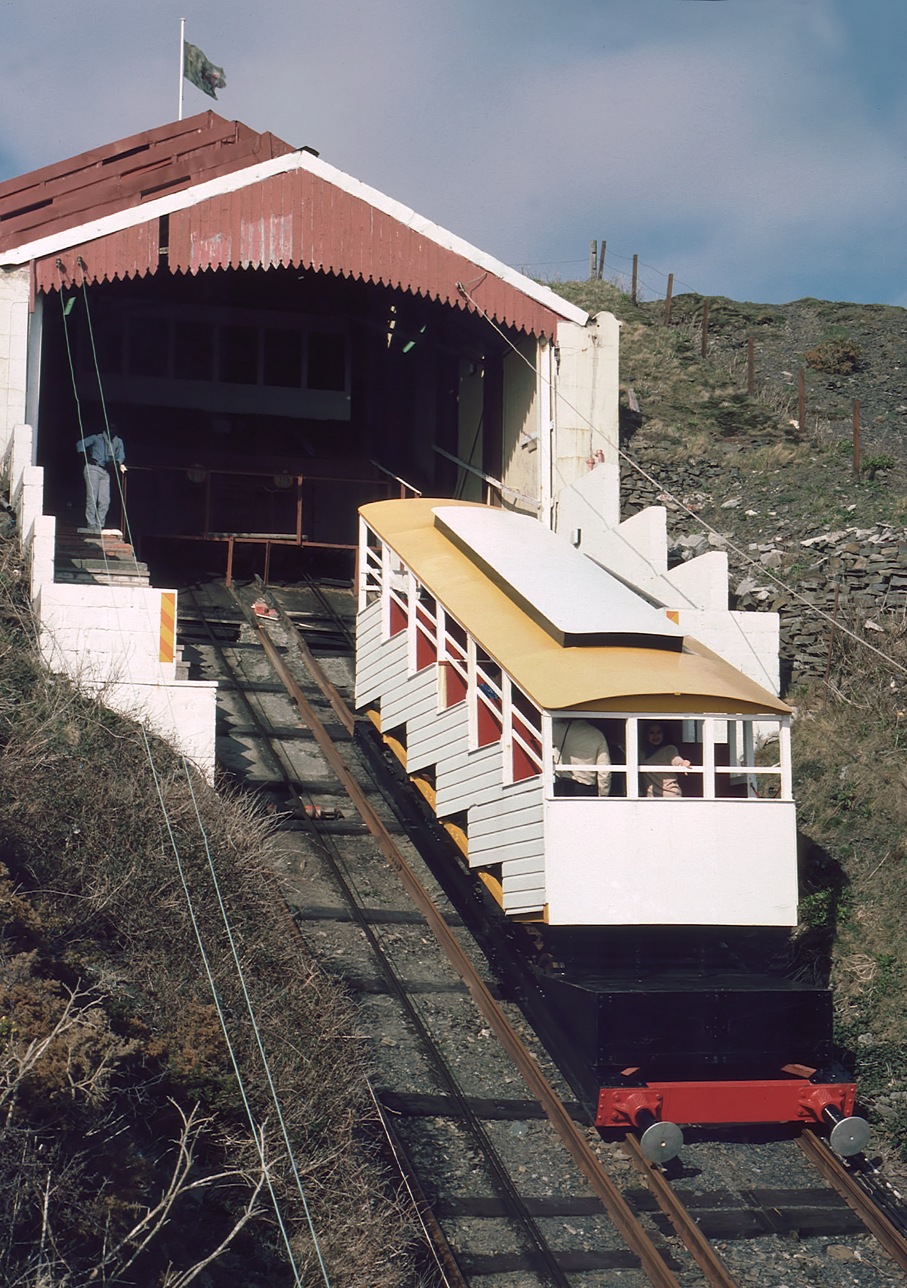 Aberystwyth - cable car at the Constitution Hill, Wales/UK